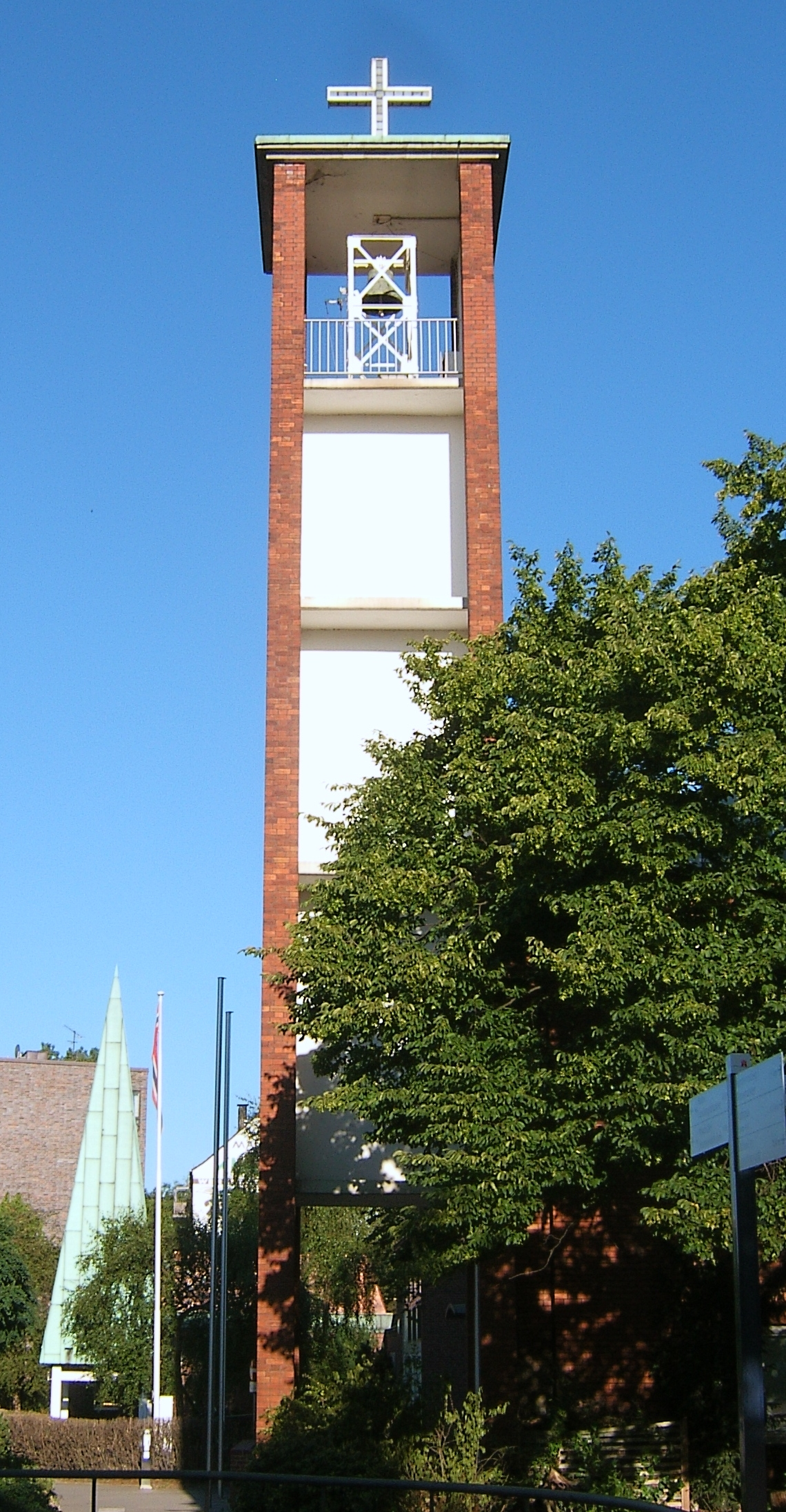 Hamburg, Neustadt, Benediktekirken of the Evangelical Lutheran Danish Folk Church is one of the seamen's churches in Hamburg.